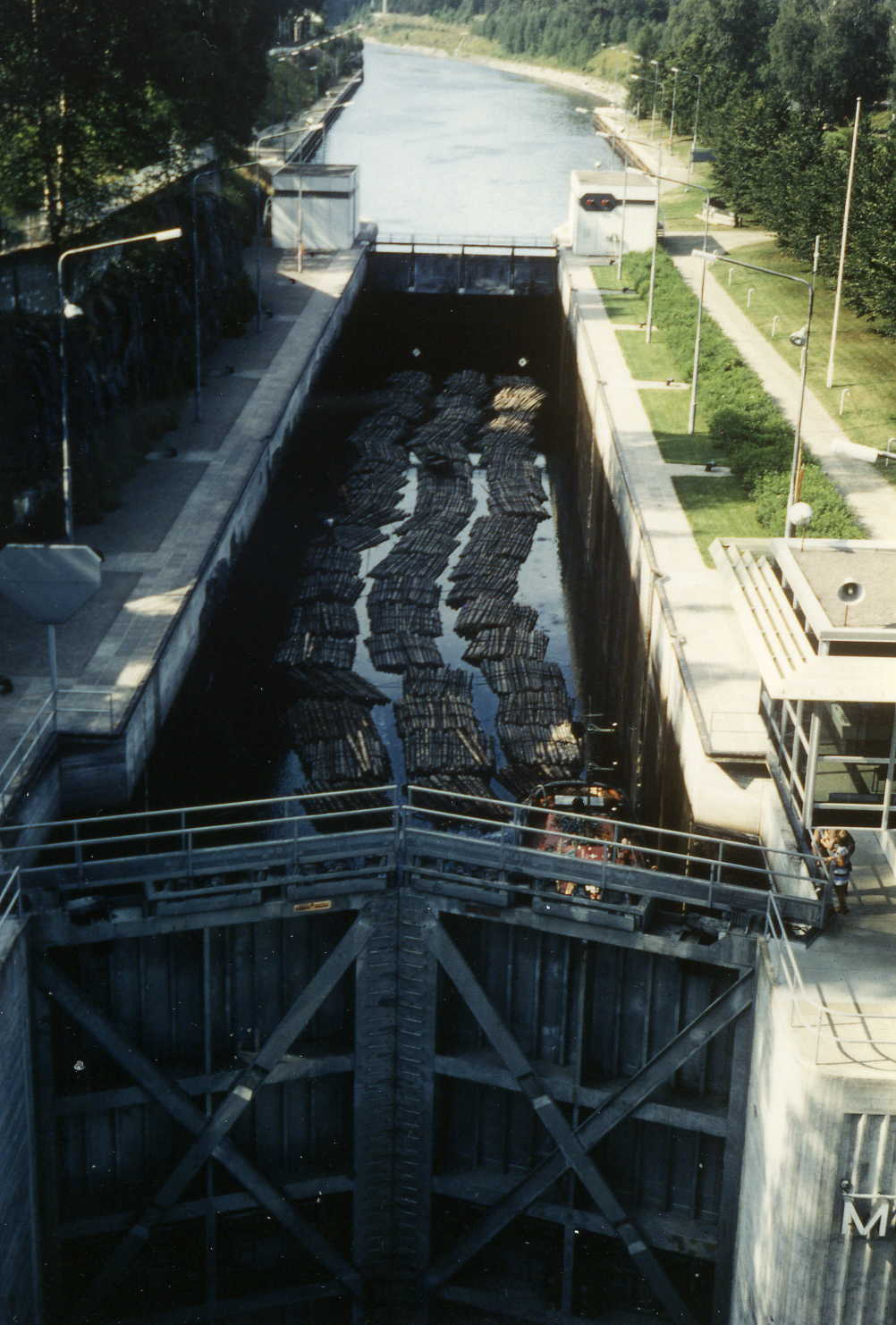 Mälkiä Lock of Saimaa Canal in Lappeenranta, Finland, with bundles of logs floating in it.